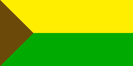 flag from Abejorral